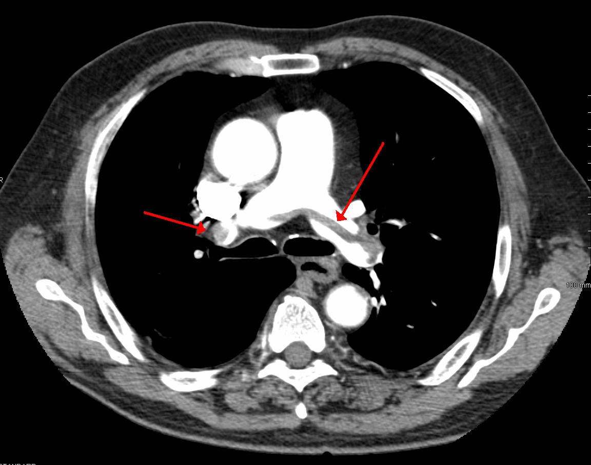 A large pulmonary embolism at the bifurcation of the pulmonary artery (saddle embolism).